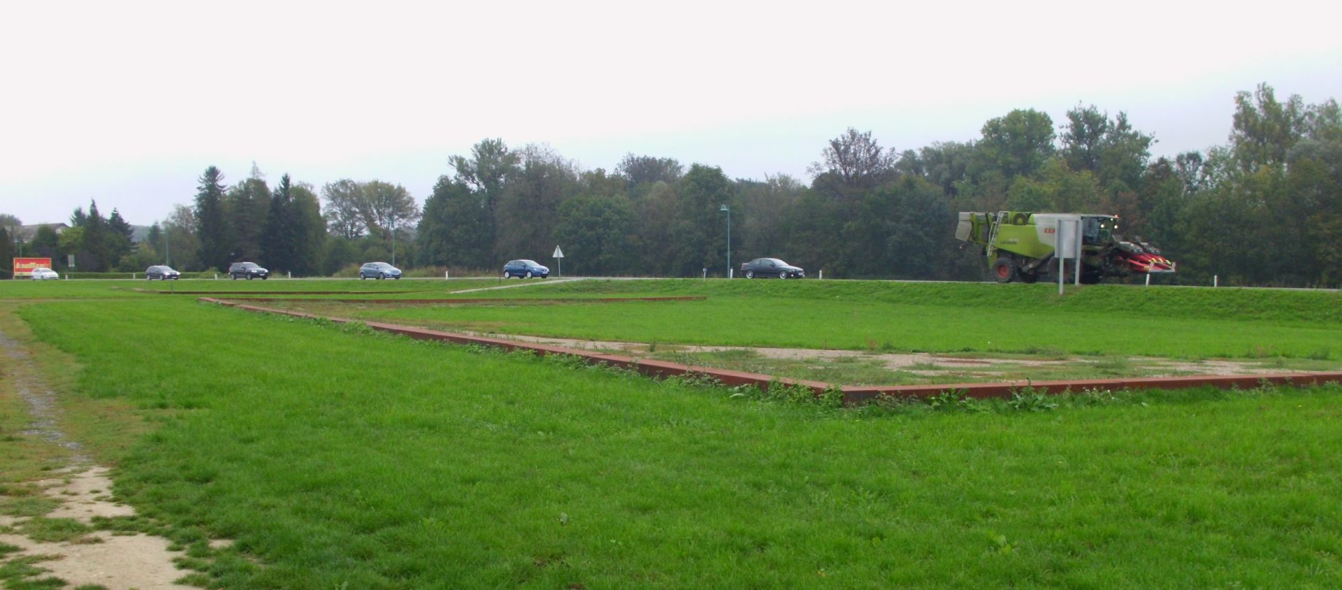 Flavia Solva - Featured Roman blocks